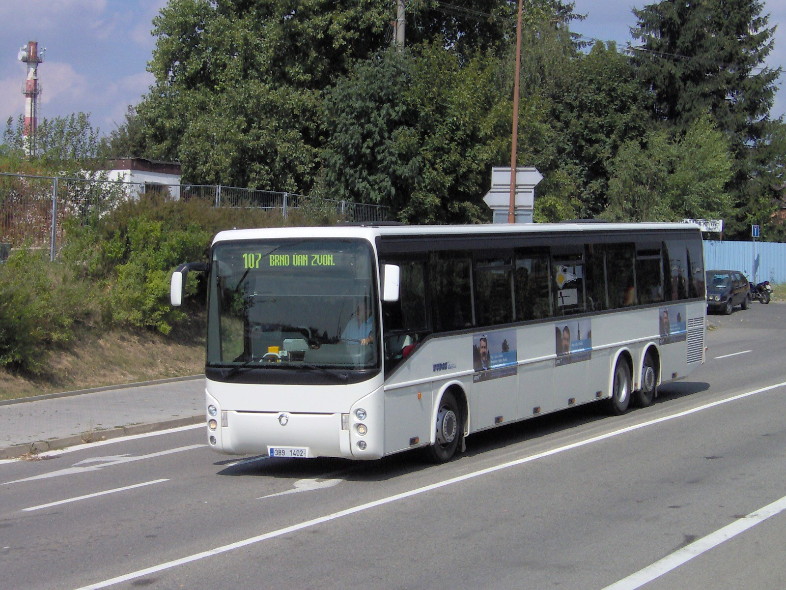 Irisbus Ares 15M bus in Vyškov, Czech Republic